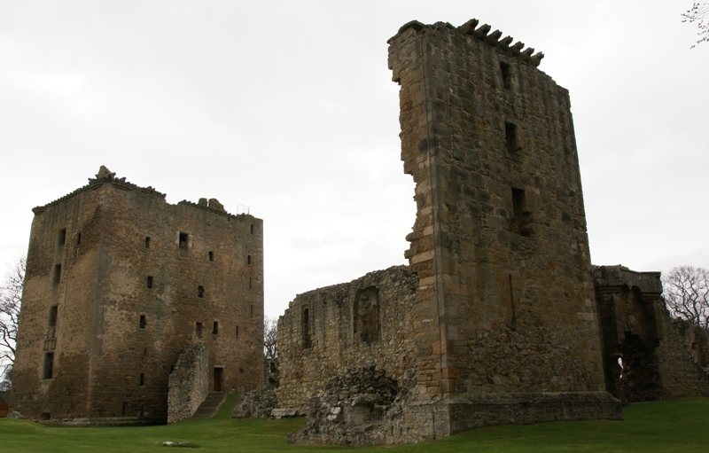 Spynie Palace, Moray, Scotland - David's Tower on the left (west) and southwestern tower on the right (east)